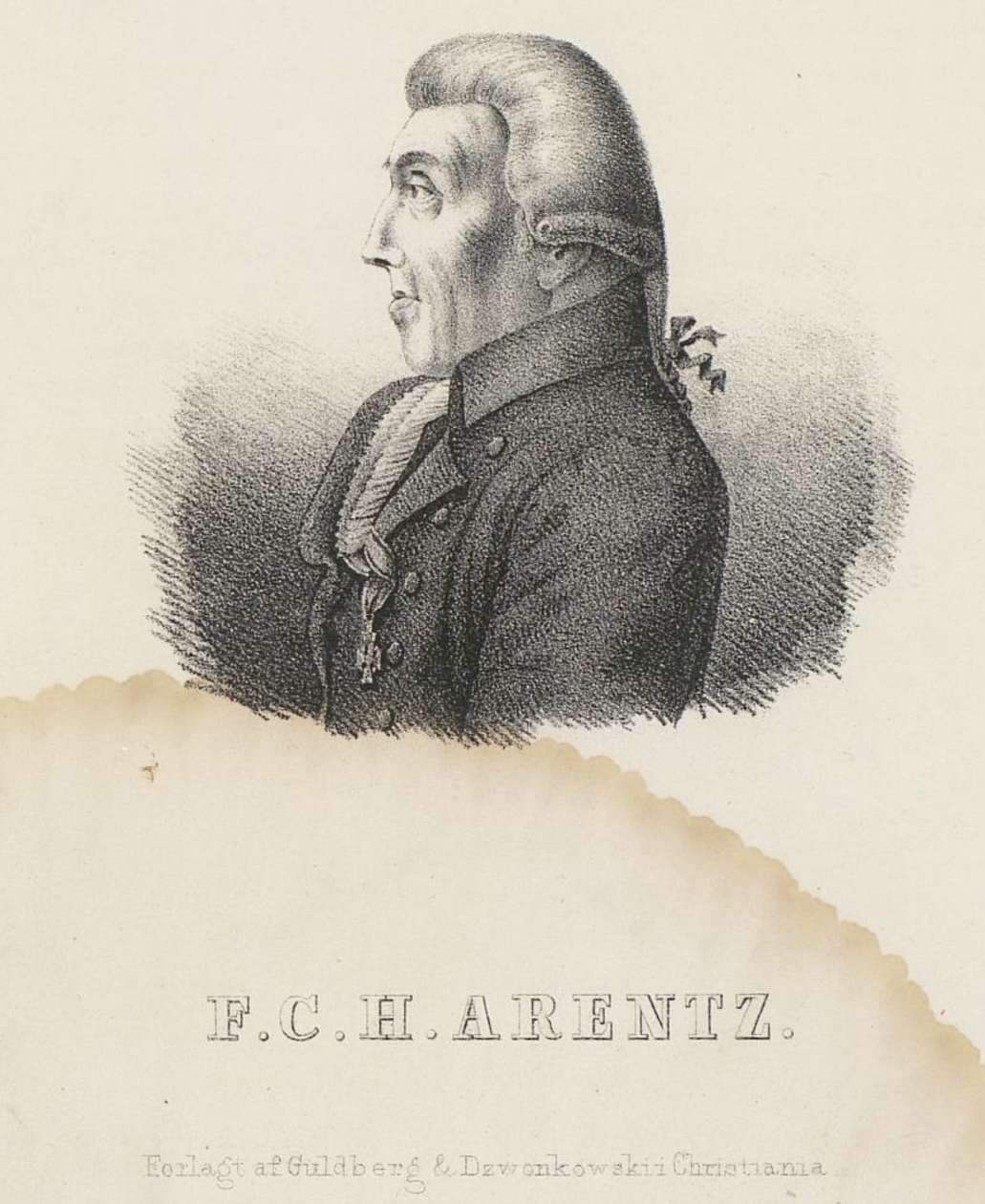 Lithograph of Fredrich Christian Holberg Arentz (1736-1825), by "Em. Bærentzen & Co. Lith. Inst. i Kiøbenhavn"